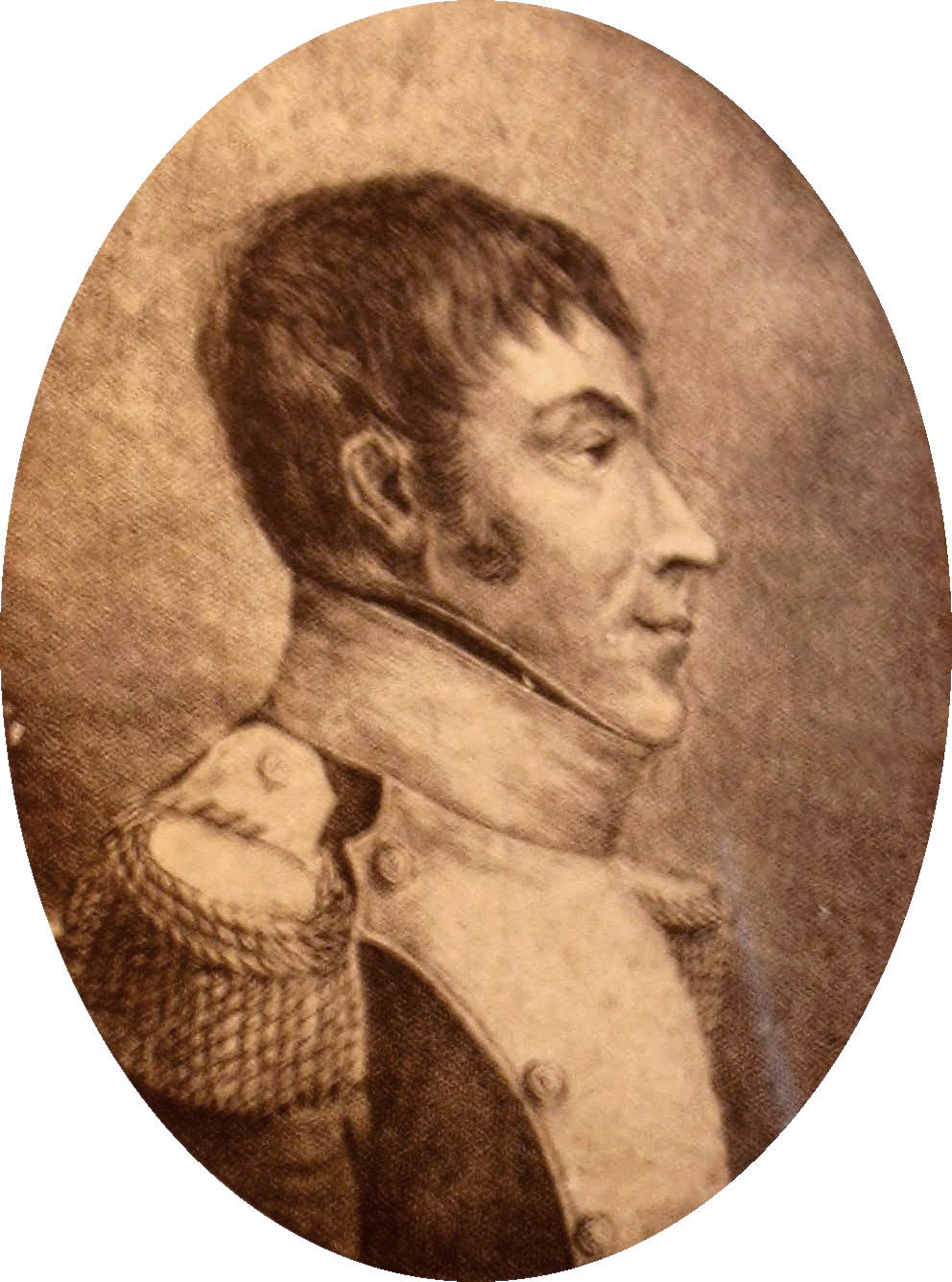 Polish poet and novelist Cyprian Godebski who served in Napoleonic Legions, grandfather of sculptor Cyprian (Cypriene) Godebski. Anonymous plate before 1809.